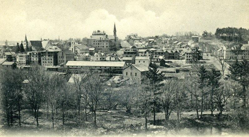 View of Southbridge, Massachusetts from Paige's Hill; from a c. 1905 postcard published by Johnson Colburn Co., Southbridge, Massachusetts.